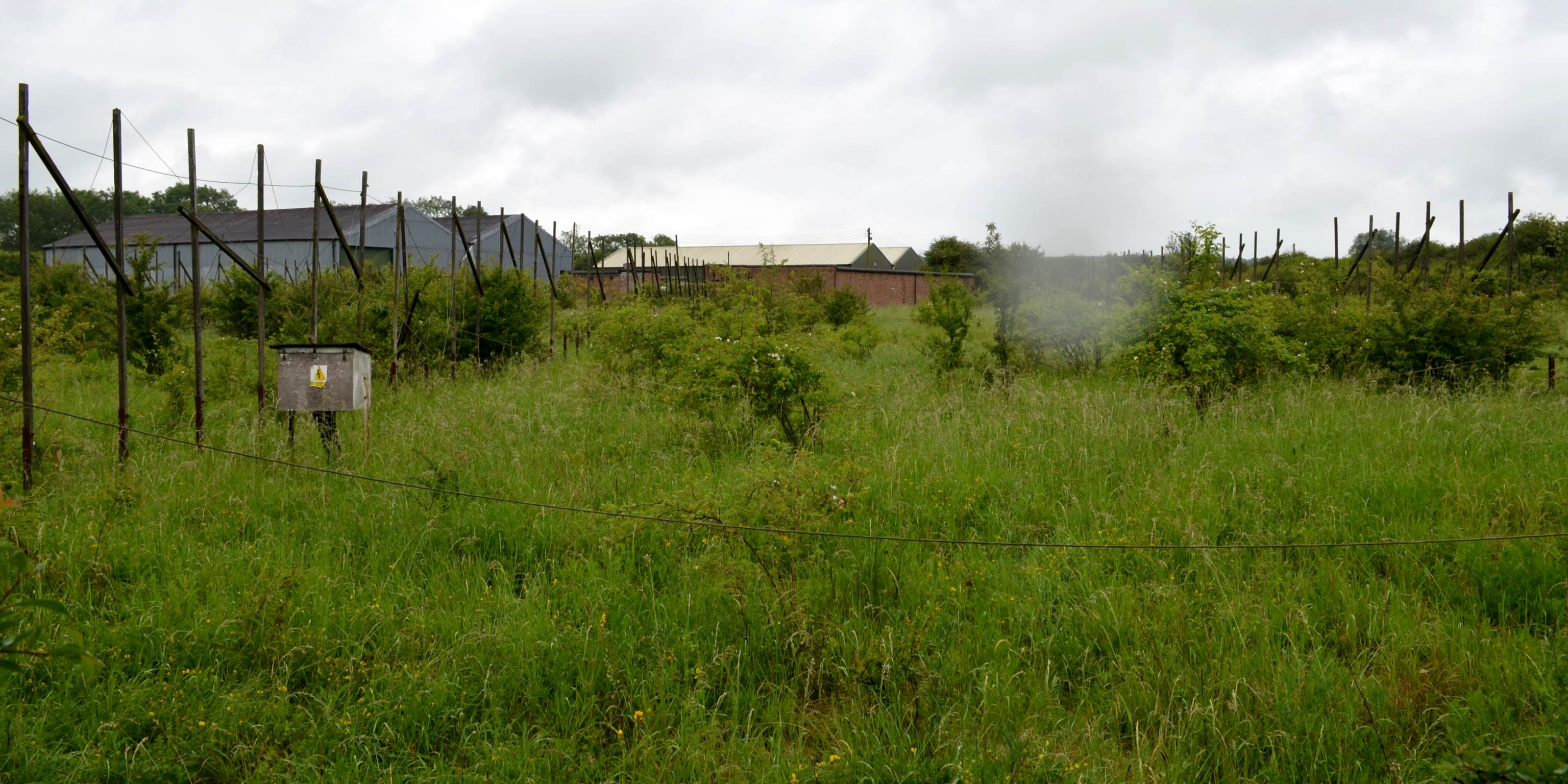 Remains of the Interplanetary Scintillation Array at the Mullard Radio Astronomy Observatory, Cambridgeshire in June 2014.